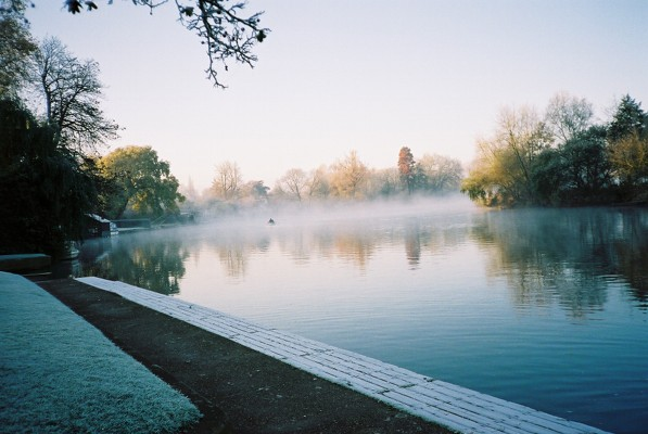 River Thames - Wargrave. Shallow fog over the river as a man rows his boat across.